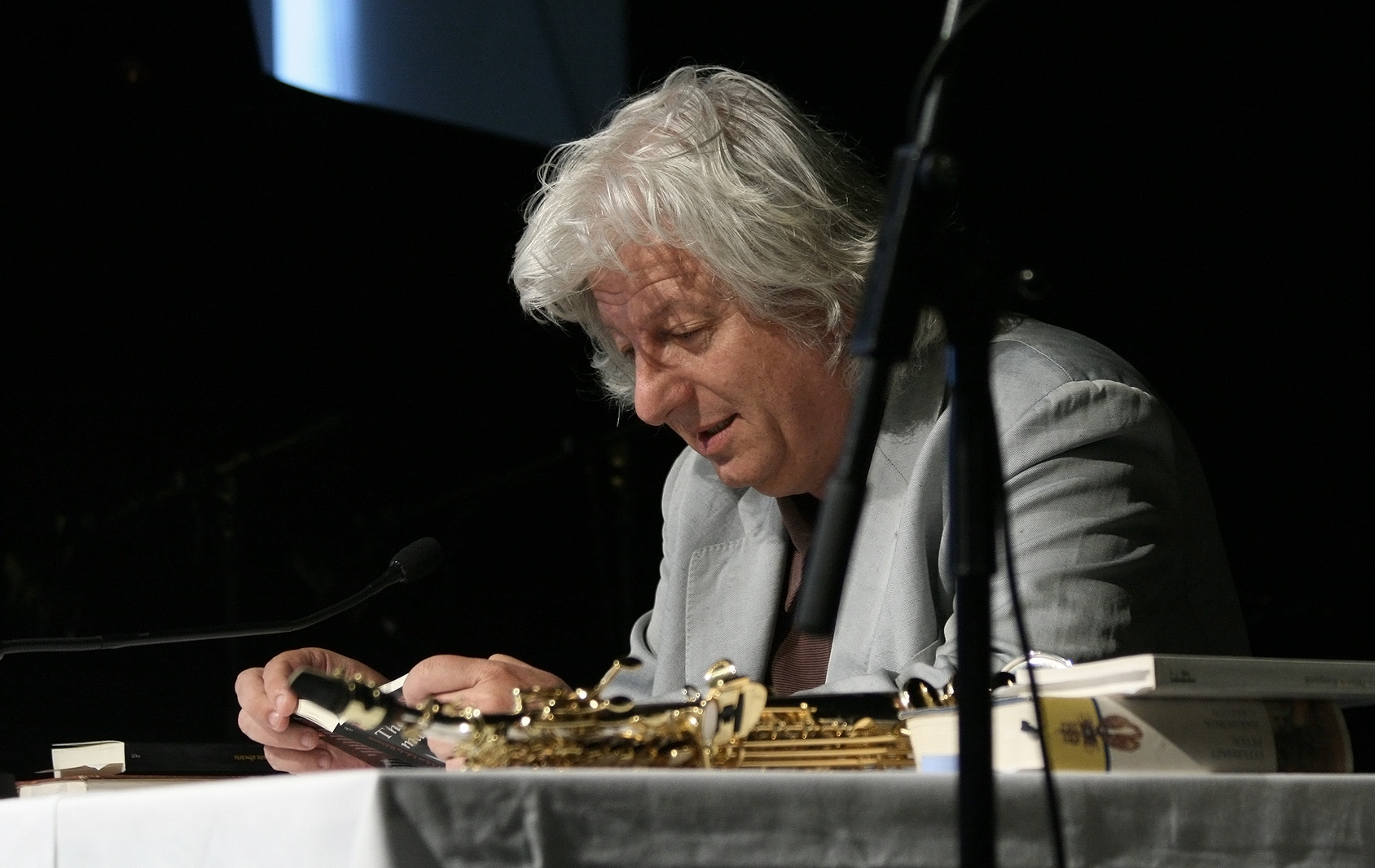 Hungarian writer Péter Esterházy at the pre-opening of the literary festival O-Töne 2011 at the Museumsquartier in Vienna